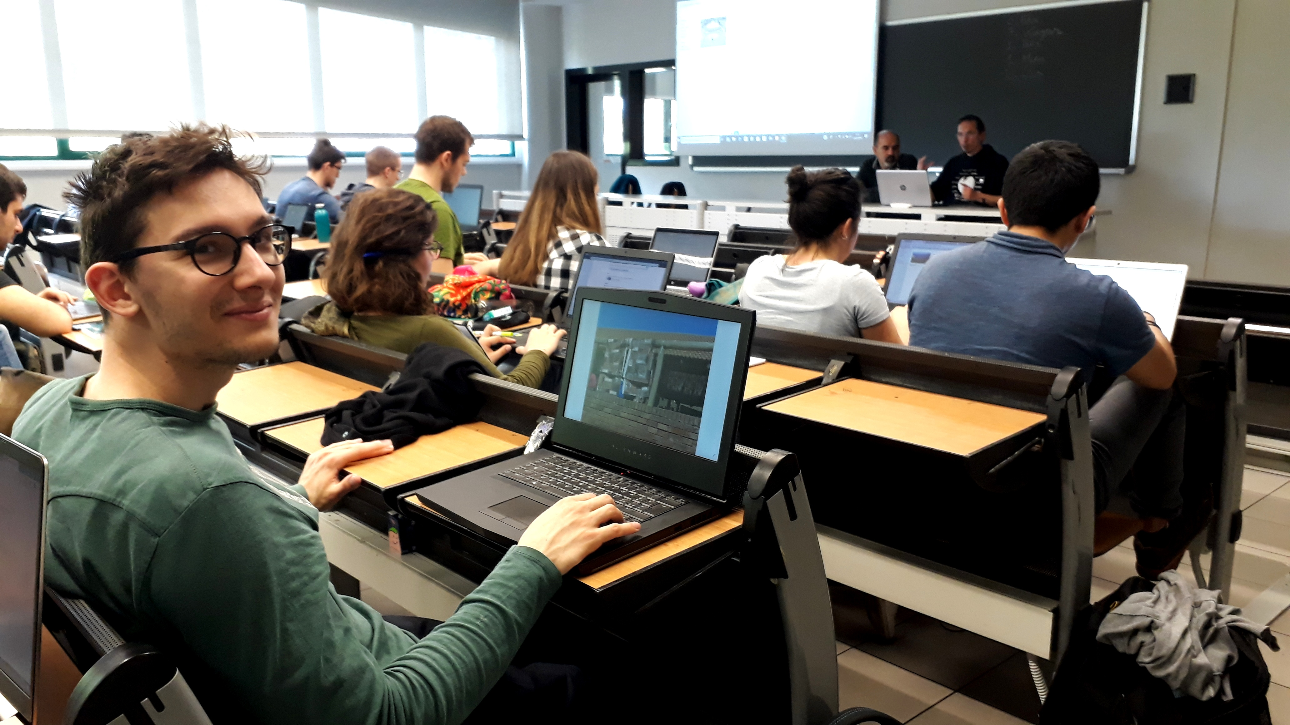 Instructors and attendants of the course "Wikipedia, scienza e tecnologia per tutti" at the Politecnico di Milano (April 2019)